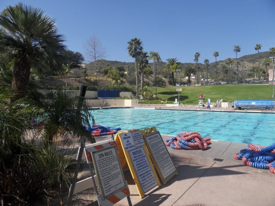 Pepperdine university outdoor pool, Malibu, California.